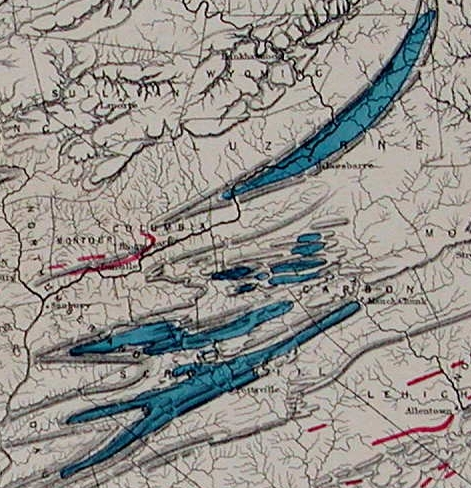 Map of Pennsylvania which I cropped to highlight the Anthracite coalfields.